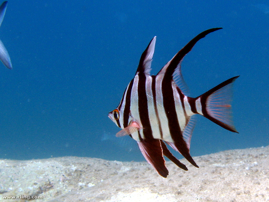 Old Wife (Enoplosus armatus). Fairy Bower, Manly, NSW